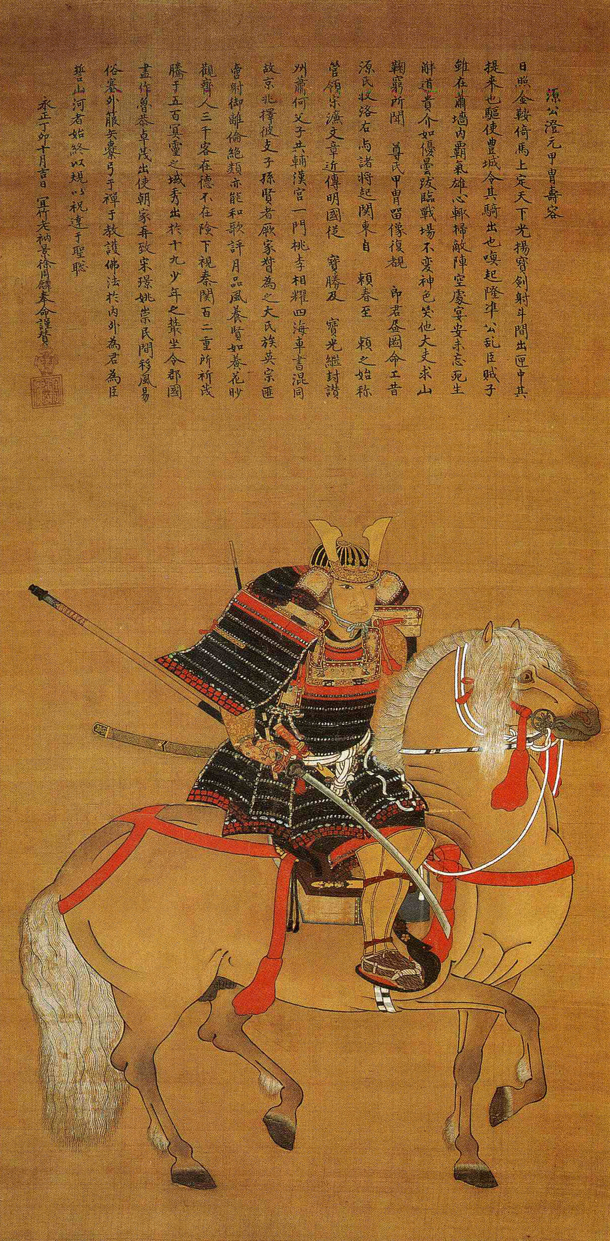 A picture of Sumimoto Hosokawa on horseback, painted by Motonobu Kano in 1507, at Eisei Bunko Museum.